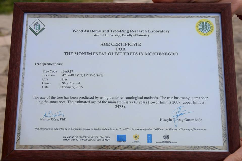 Natural monument "Stara maslina" (Old olive) in Bar, Montenegro - age certificate